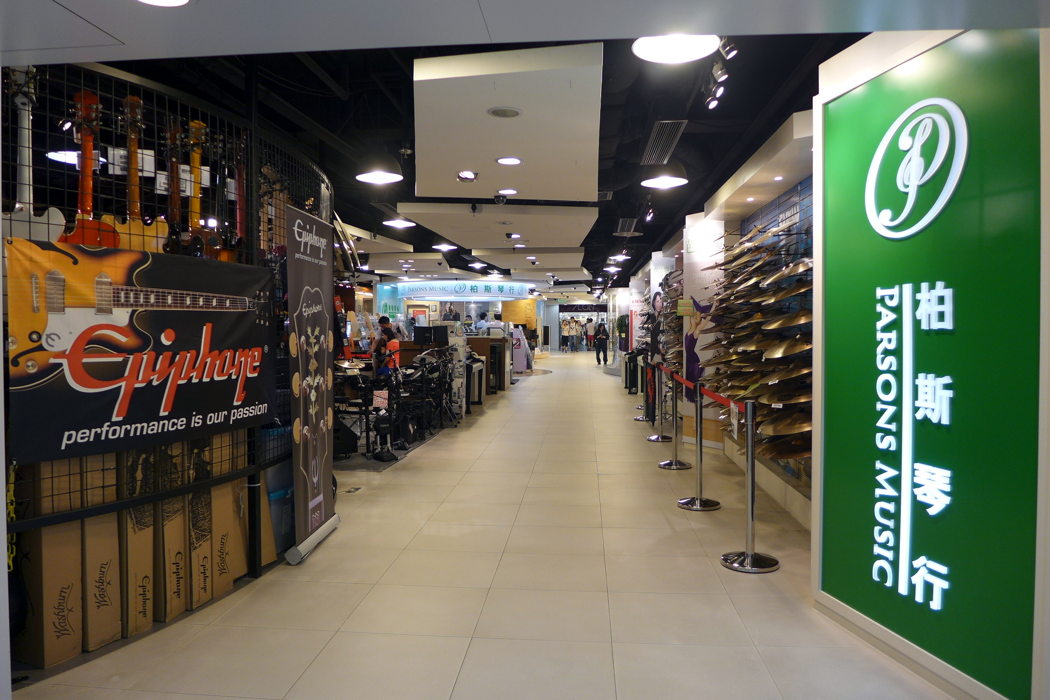 Parsons Music in Kornhill Plaza